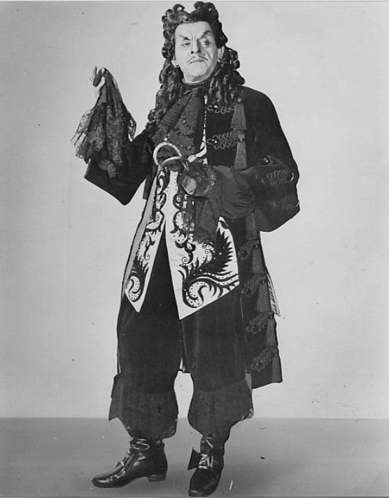 Photo of Boris Karloff as Captain Hook from the 1950 Broadway presentation of Peter Pan. Karloff had two roles in the play-that of Captain Hook as he's pictured here; he also played Mr. Darling.